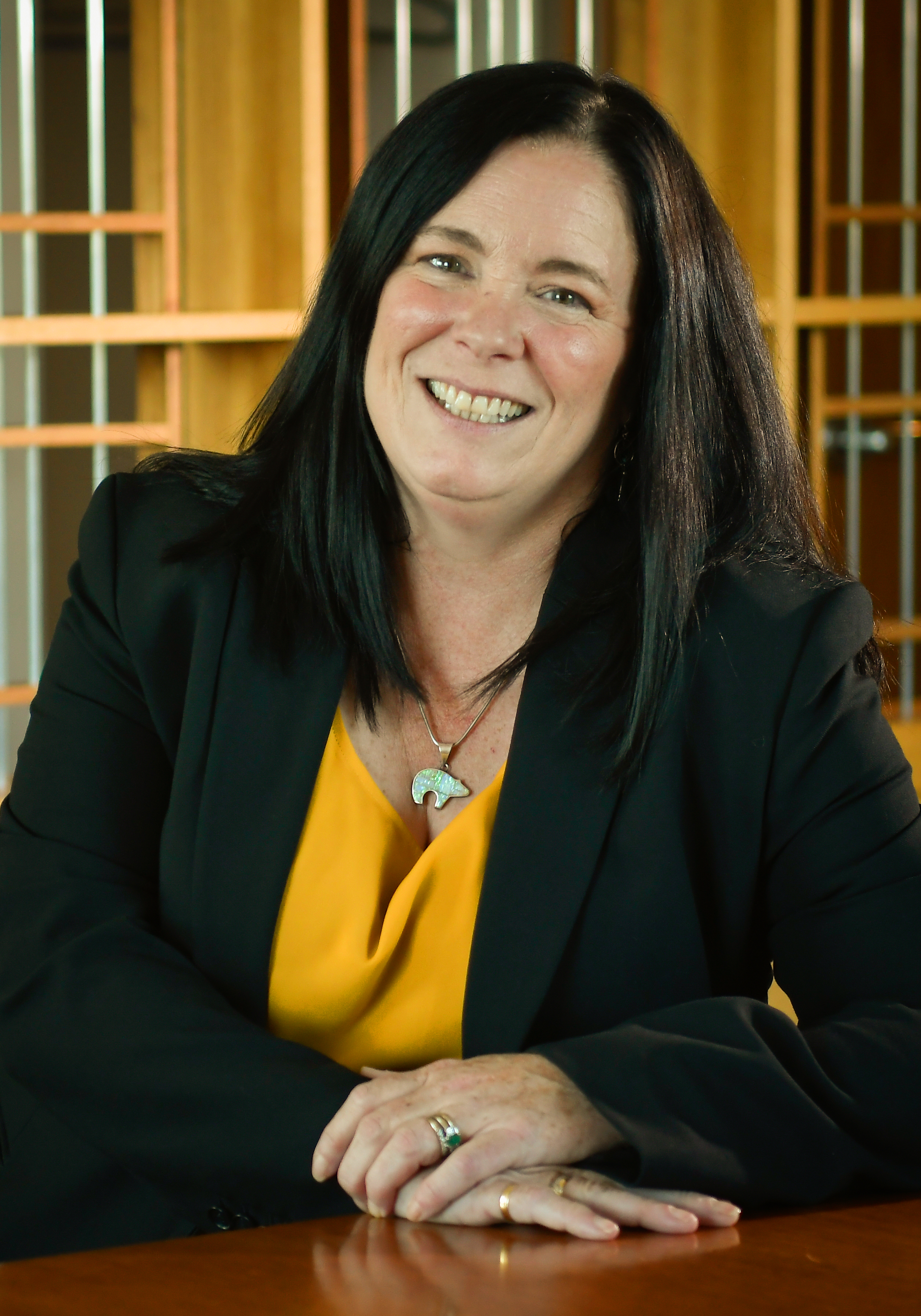 Clarkson University Provost Robyn Hannigan poses on campus, Monday, Sept, 9, 2019. (Clarkson University Photo by Steve Jacobs)